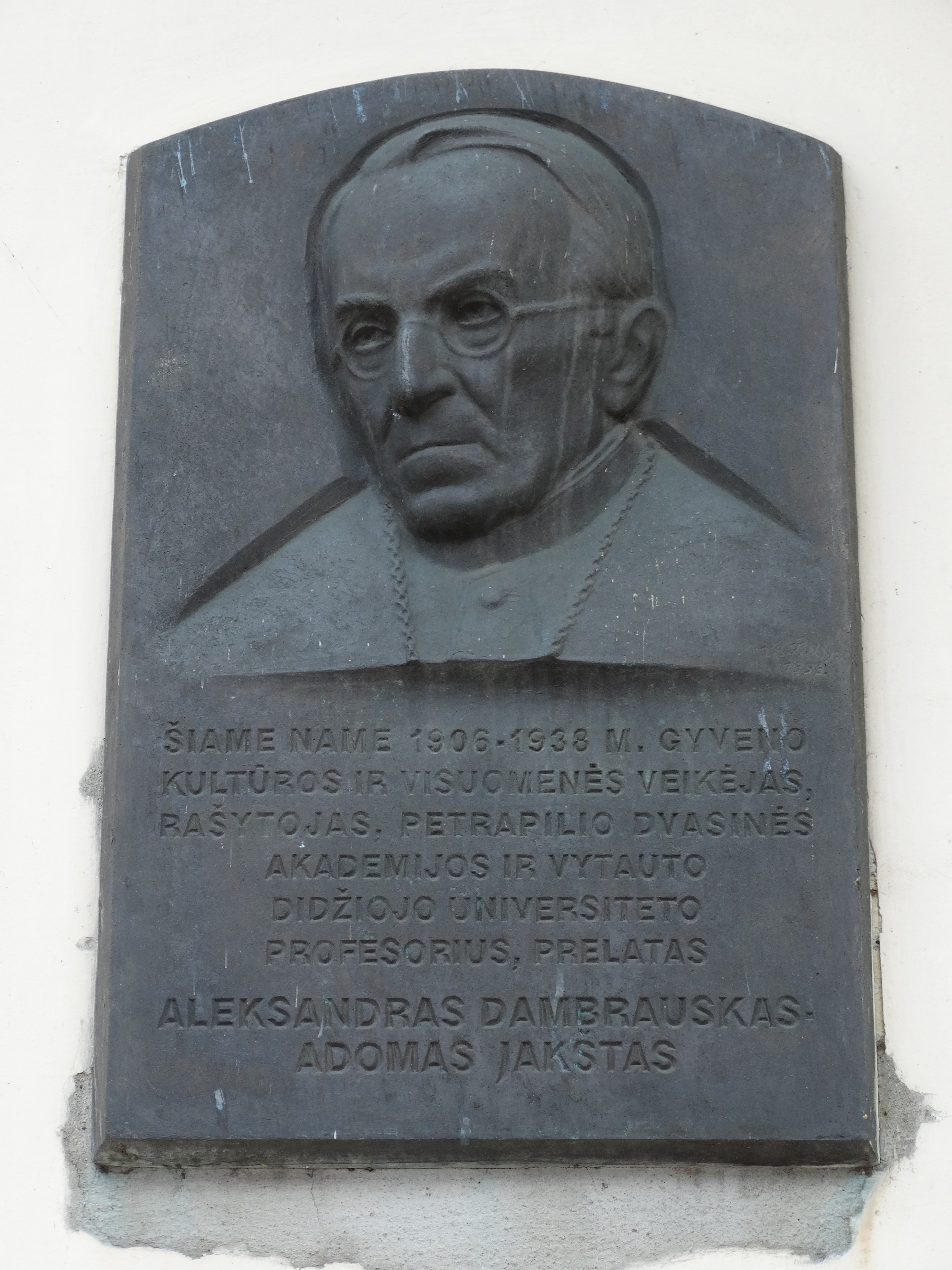 Memorial plaque to Adomas Jakštas-Dambrauskas, Rotušės a., Kaunas, Lithuania